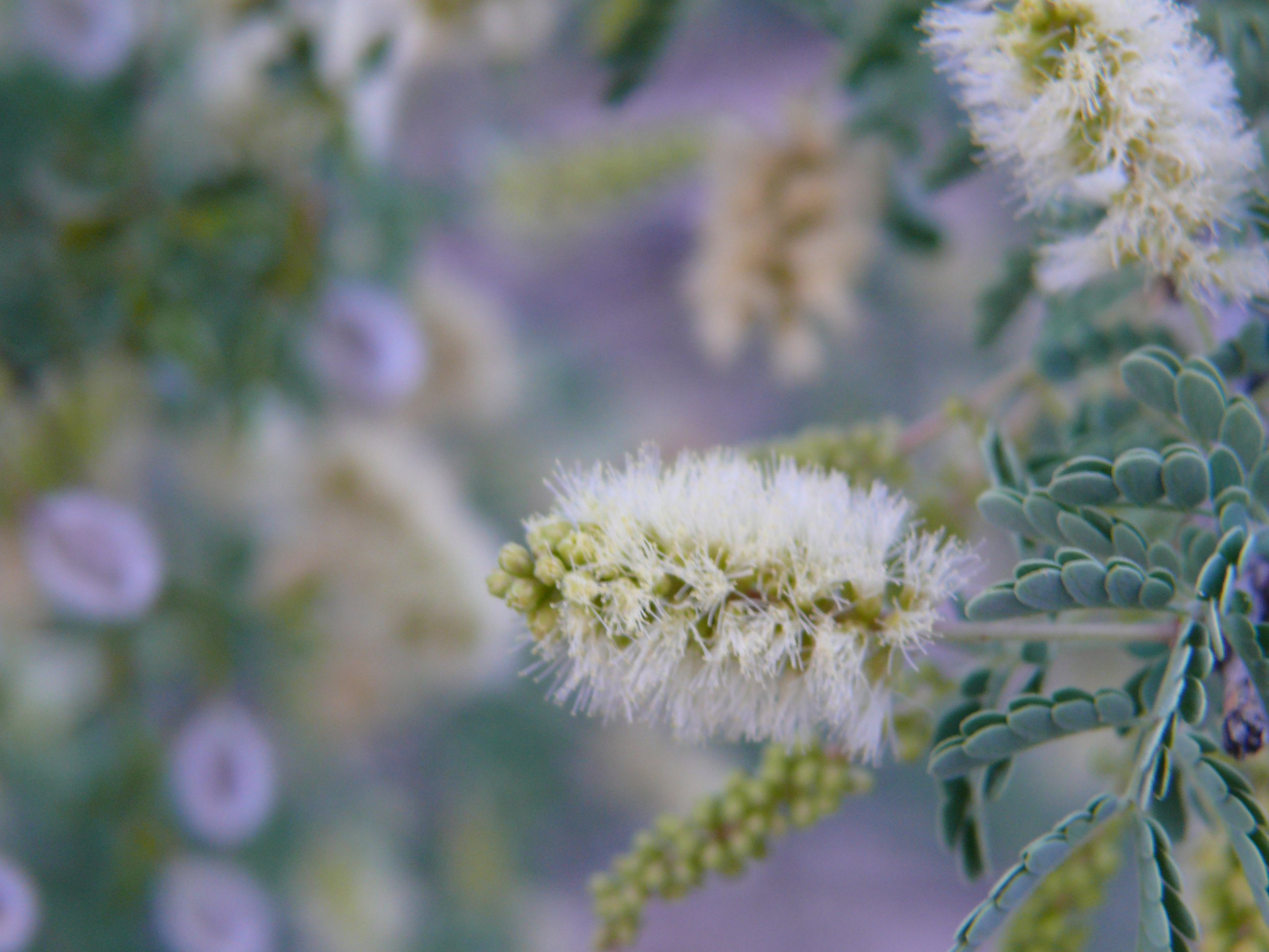 Catclaw Acacia (Acacia greggii) flower) taken in Tucson, AZ 5/14/08